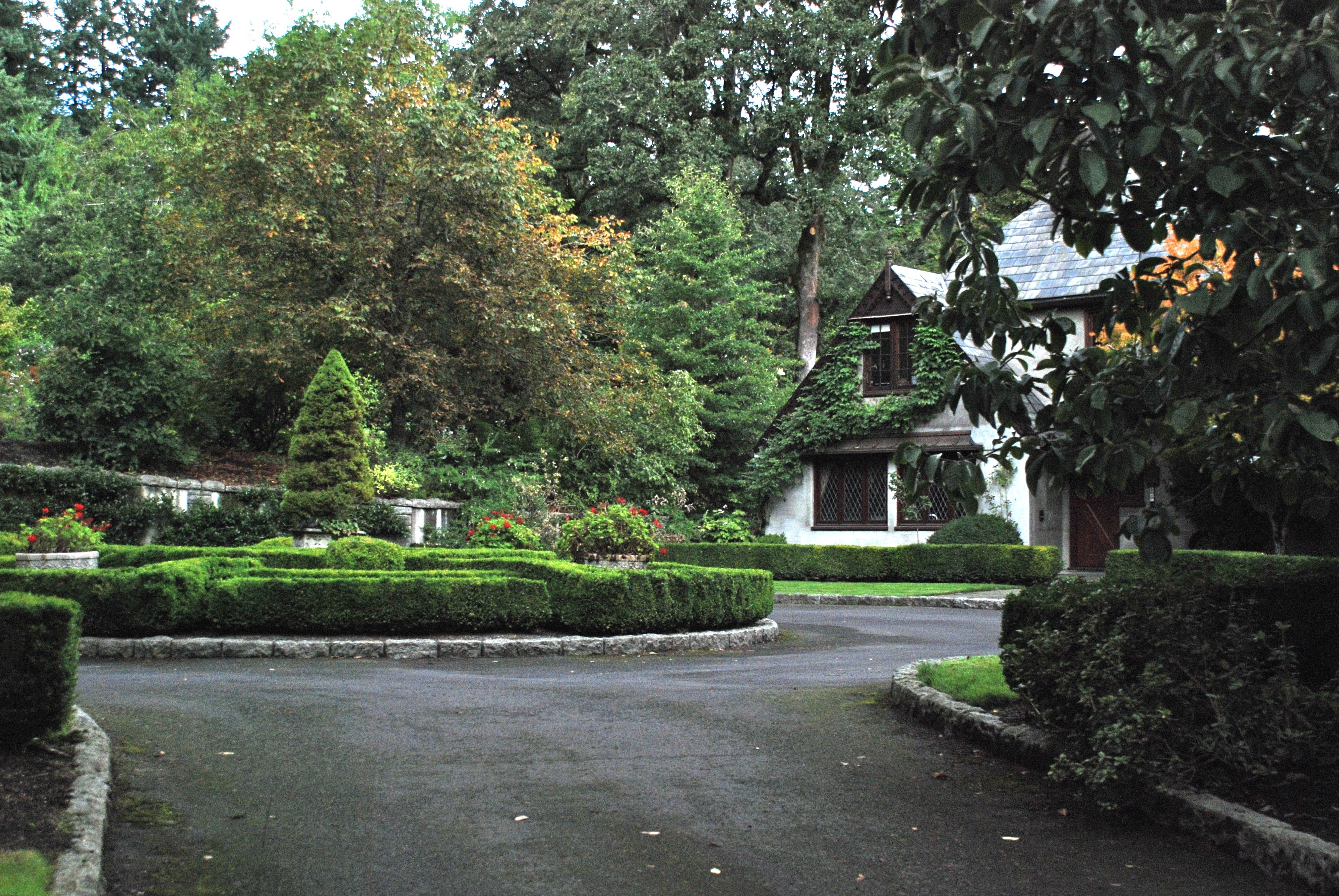 The Percy A. Smith House, located in the Portland (Oregon) metropolitan area and just south of the city of Portland, is listed on the U.S. National Register of Historic Places.